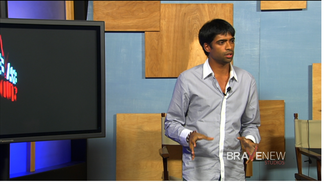 Anand Gopal speaks at Brave New Studios.